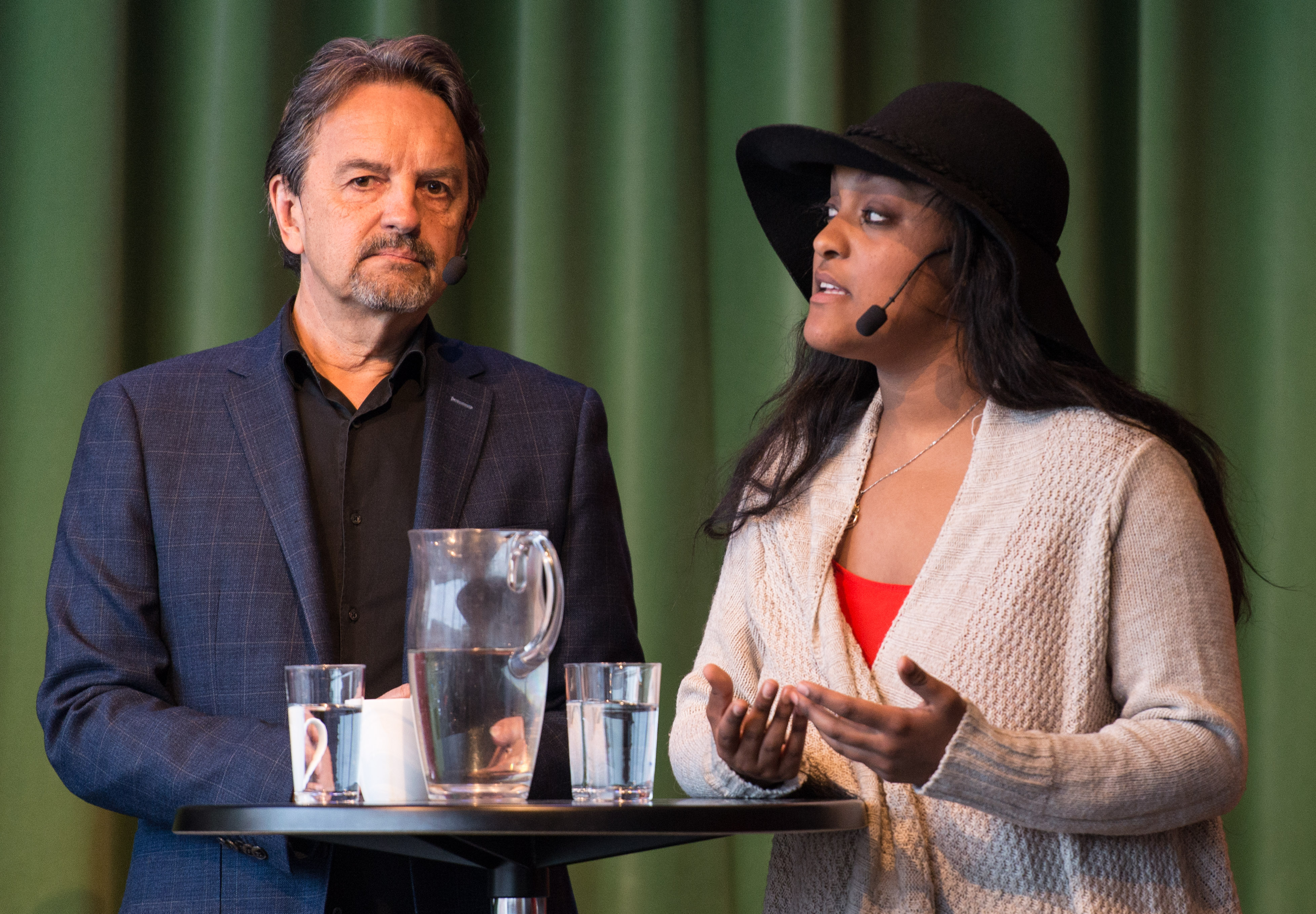 Manifestation in Stockholm in June 2015 for Dawit Isaak who has been imprisoned for 5000 days in Eritrea.